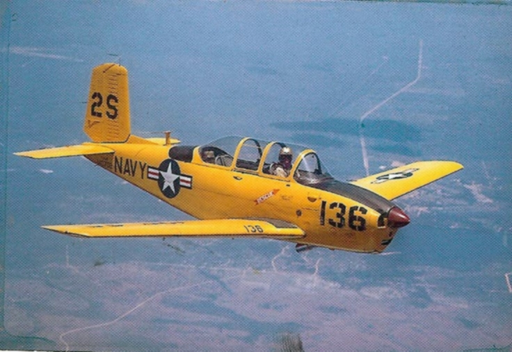 A U.S. Navy Beech T-34B Mentor (BuNo 140702) in flight. The tail code "2S" identifies Naval Auxiliary Air Station Saufley Field near Pensacola, Florida (USA), where Training Squadron VT-1 operated the T-34B until 1976.